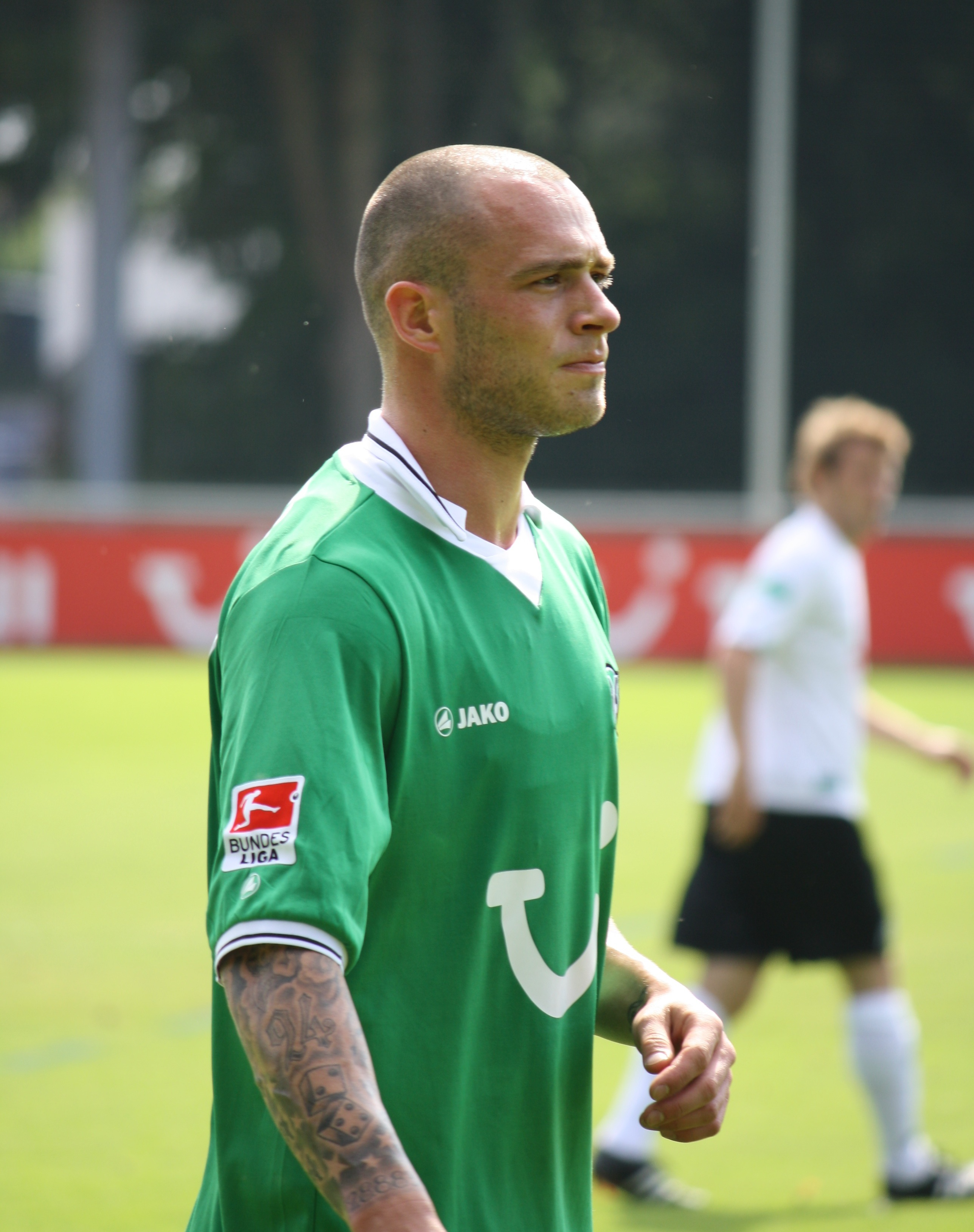 C. Pander Player Hanover 96